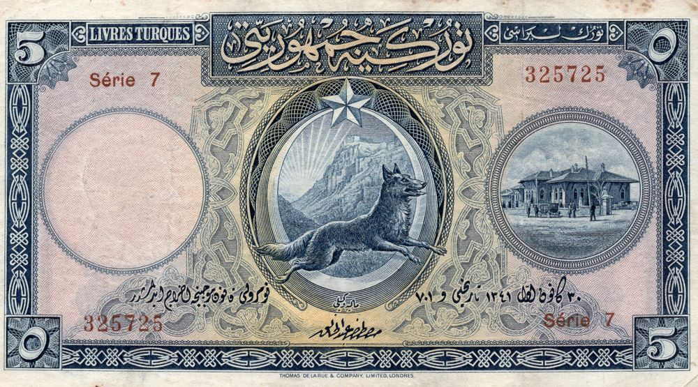 5 Liras Money from 1927 Testversion from Atatürk